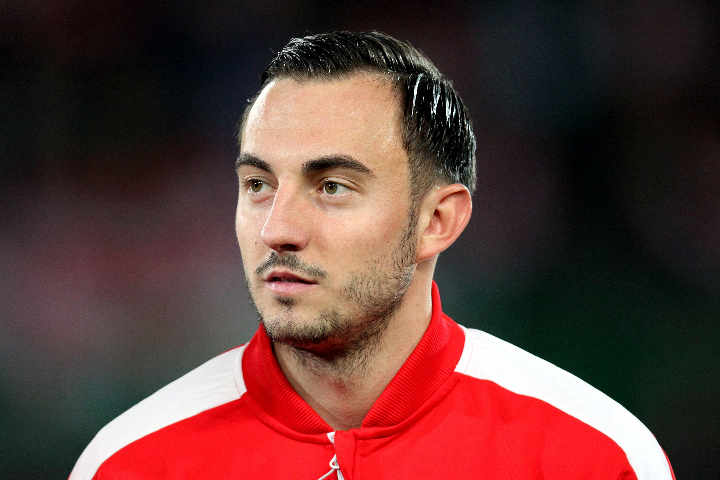 Friendly match – Austria (red shirts) vs. Switzerland (white shirts) 1-2 (1-2) – 2015-11-17 in Vienna, Ernst-Happel-Stadion – The photo shows Josip Drmić (Switzerland).